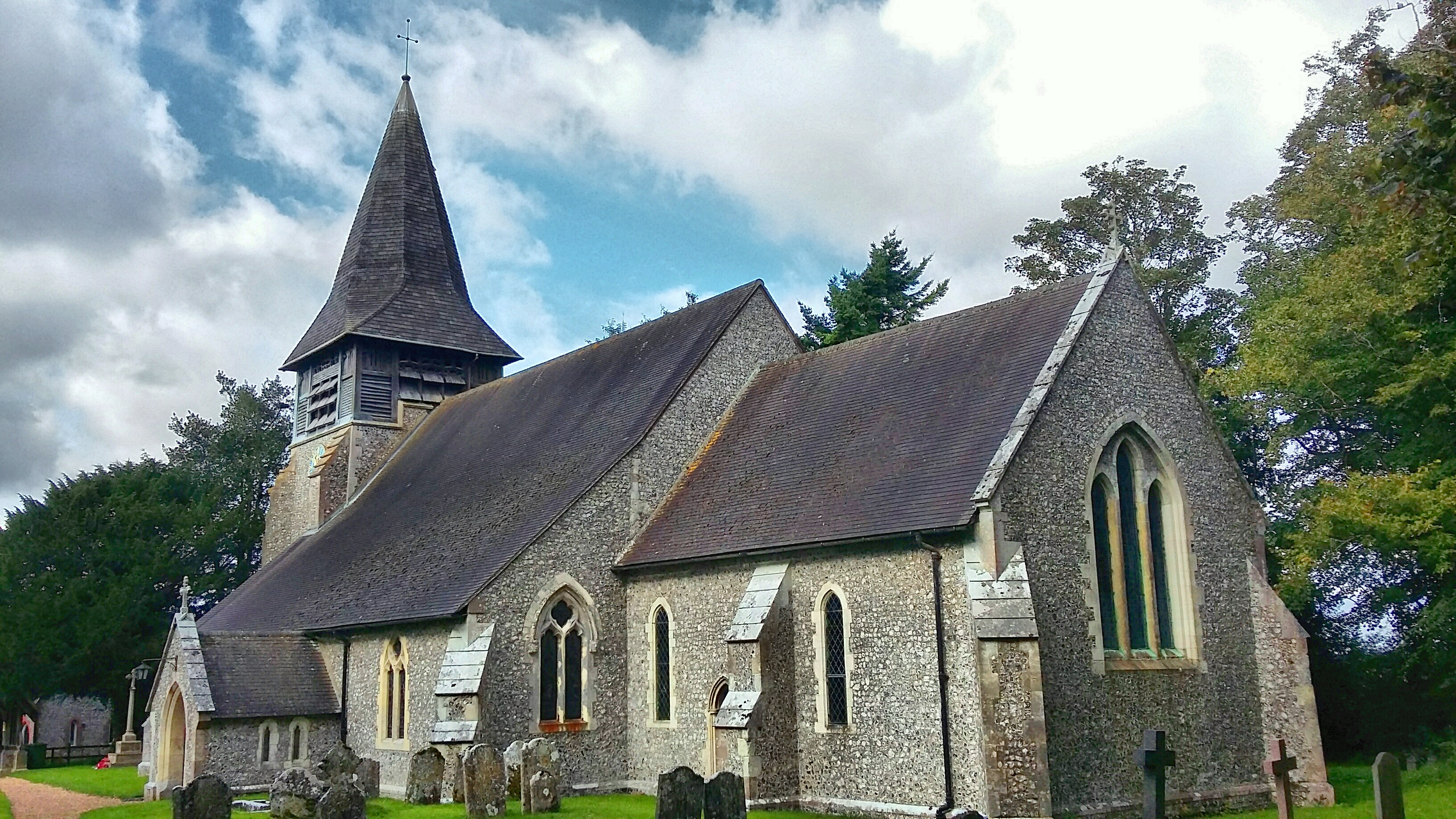 St Mary's parish church, Bentworth, Hampshire, seen from the southeast